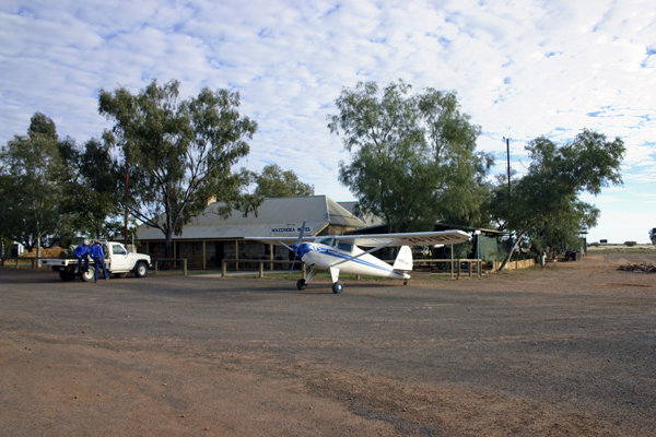 Luscombe 8A at Noccundra QLD